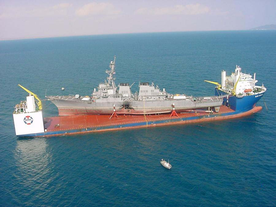 The semi-submersible ship M/V Blue Marlin carrying damaged USS Cole.